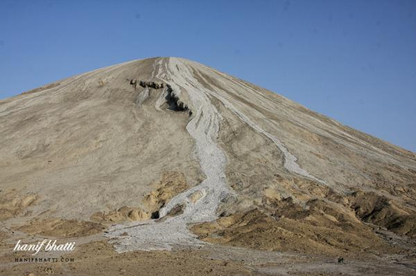 Its an active mud volcano about 300 ft high.